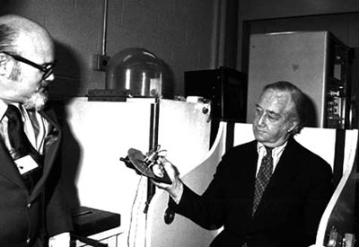 Charles Mathias, member of the United States Senate, exhibits his grip strength with a hand dynamometer during a tour of the Gerontology Research Center's Baltimore Longitudinal Study of Human Aging testing laboratories. Looking on is Dan Rogers of the NIA Center's information staff.